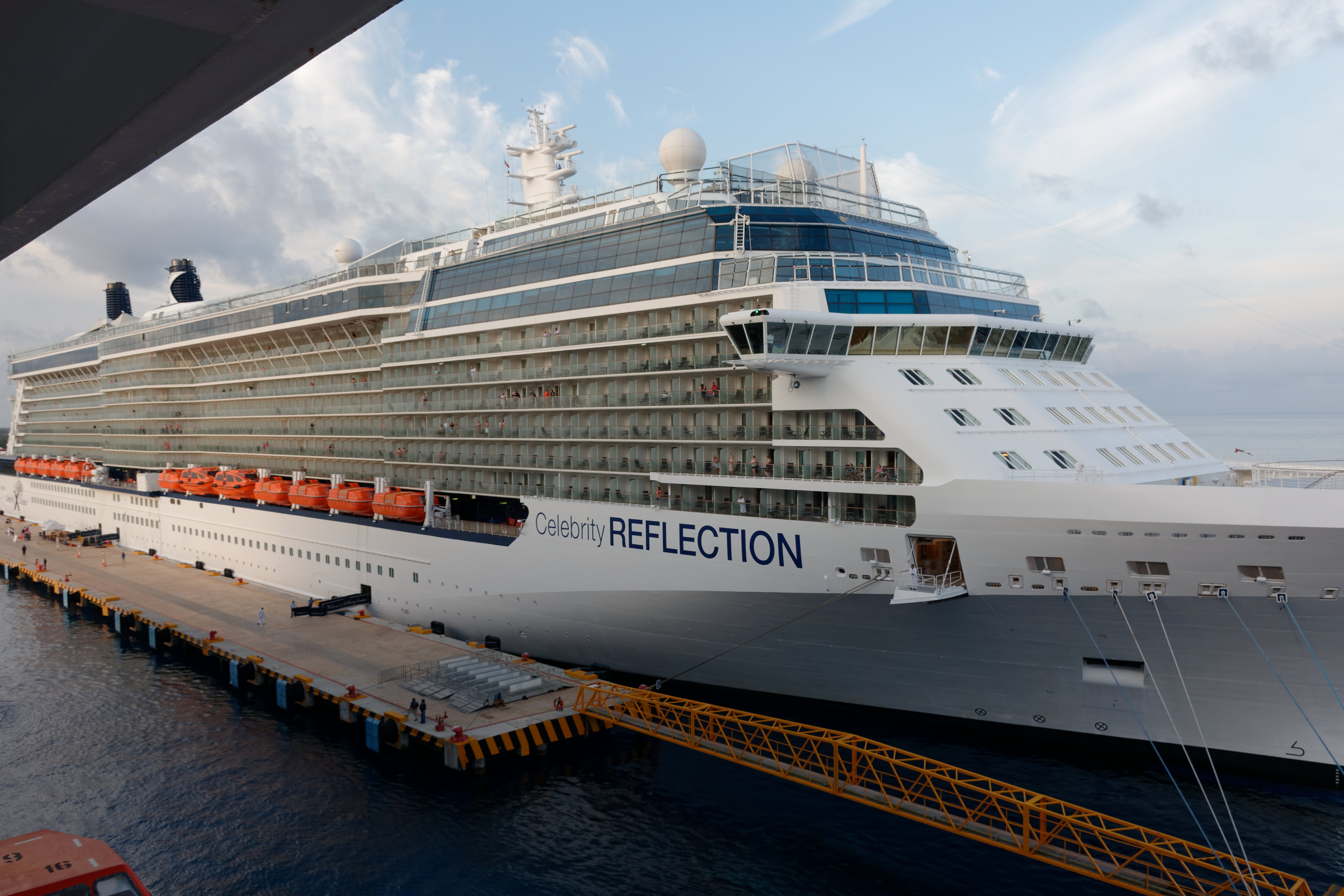 The Celebrity Reflection in 2017